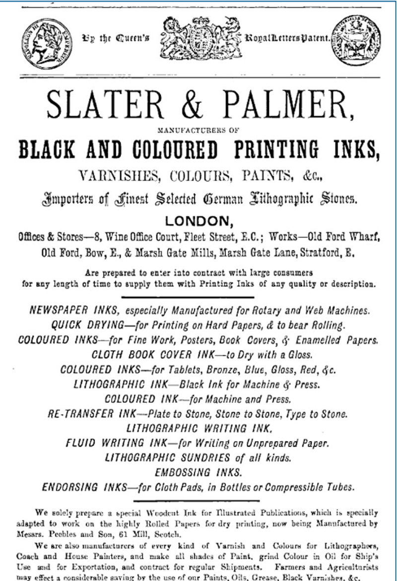 Advertisement for Slater and Palmer in 1882